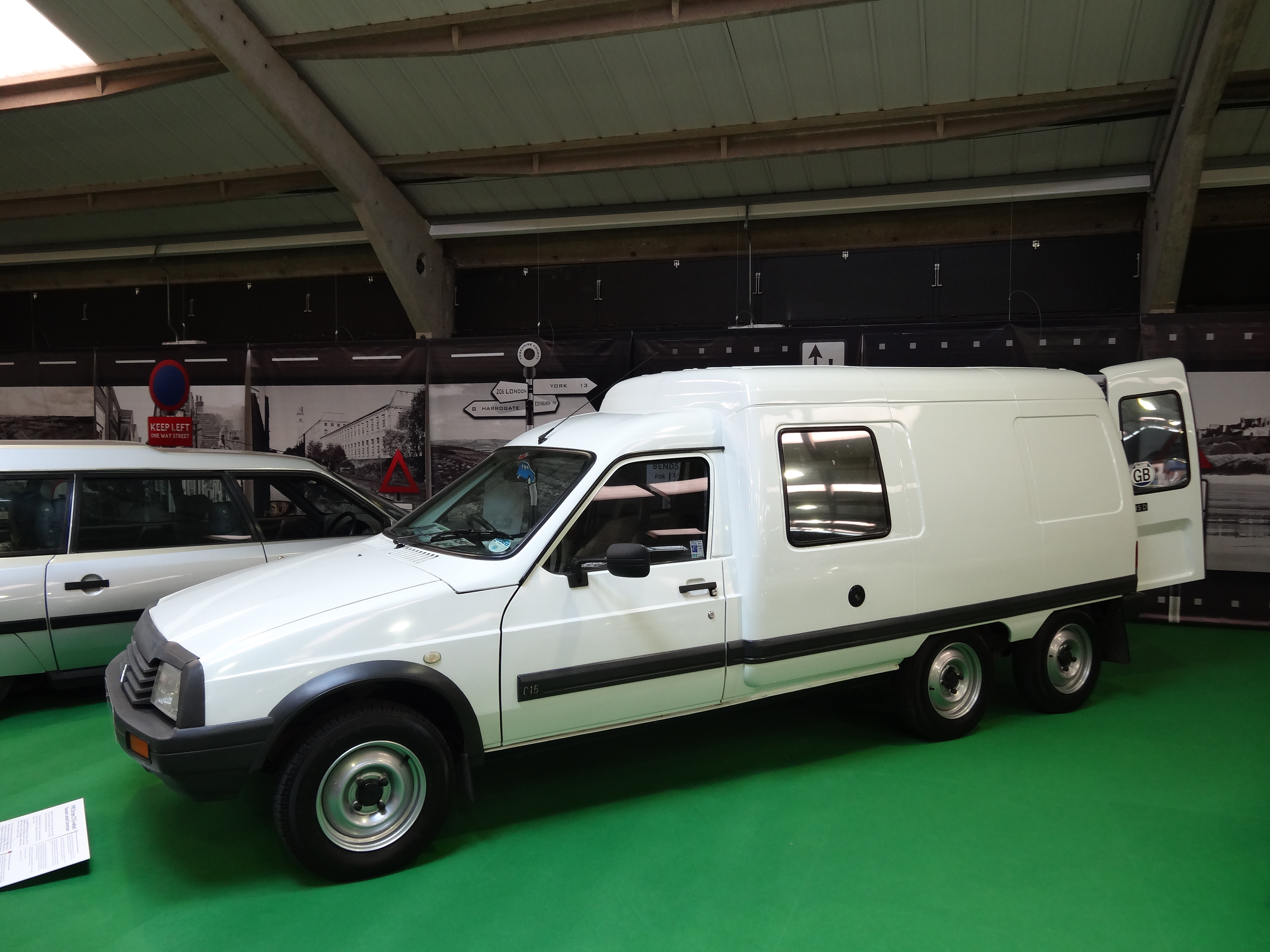 A 1995 Citroën C15.6 build by Chausson (1989-1995) according to the work of Christian de Léotard (fr) (who did some other 6-wheel cars).